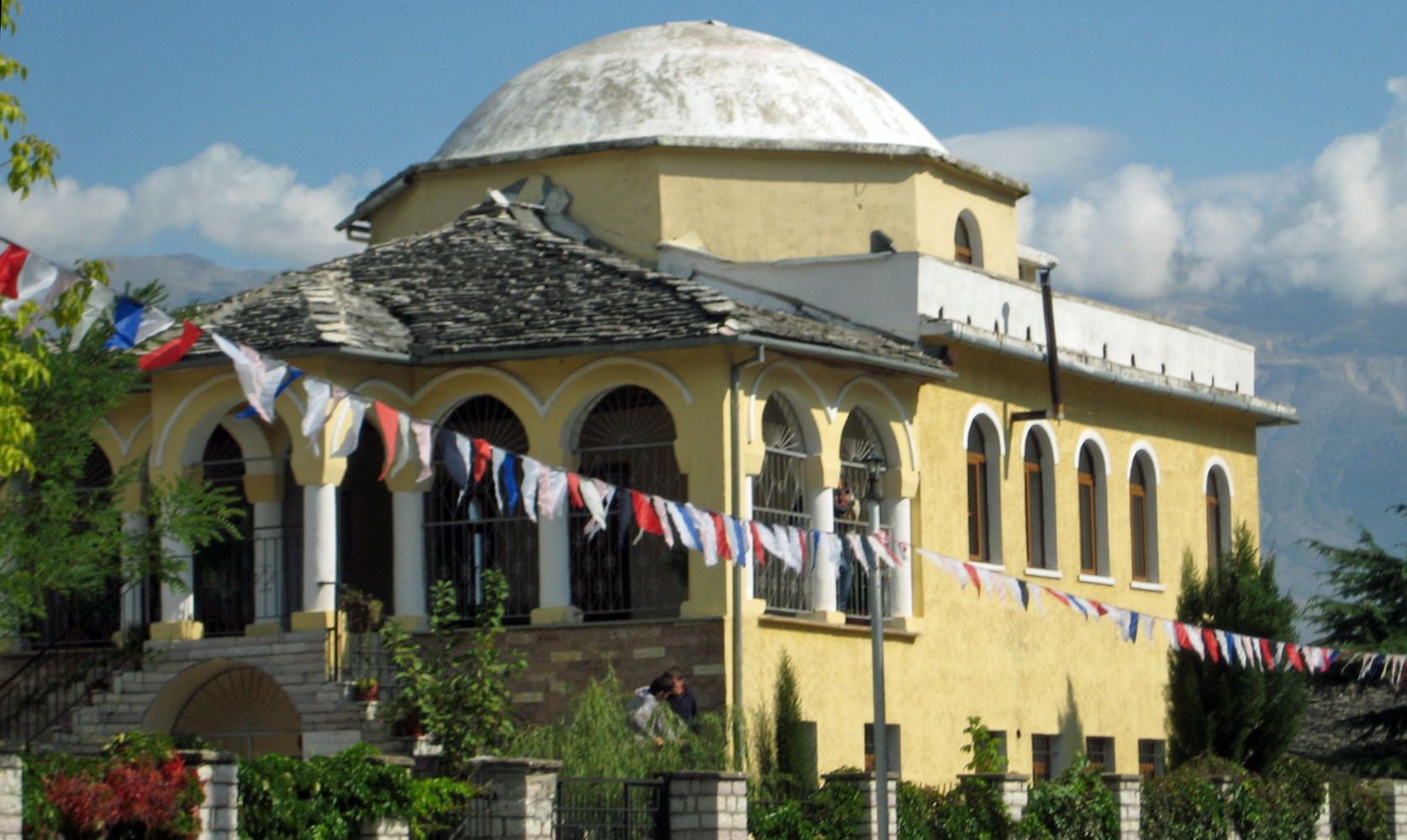 Old mosque in Gjirokastra